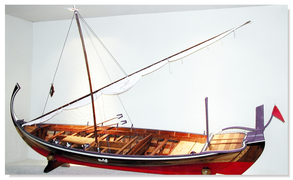 Traditionally Maldivians, as masters of the sea, used small dhonis and trawled outside the atoll enclosure reef for big game such as sailfish, swordfish, marlin, wahoo, barracuda, yellowfin tuna and other game. However modern speedboats equipped for western style big game fishing are also available now for hire in many resorts. Since the Maldives practices a strong conservation policy, the use of harpoon guns and hunting of marine mammals such as whales and dolphins and large fishes like the whale shark is strictly prohibited. All resorts provide facilities for big game fishing. You don’t have to be expert in fishing, the crew of the boats are very adept at the art of fishing and will advice you on all aspects of making a good and fun catch.